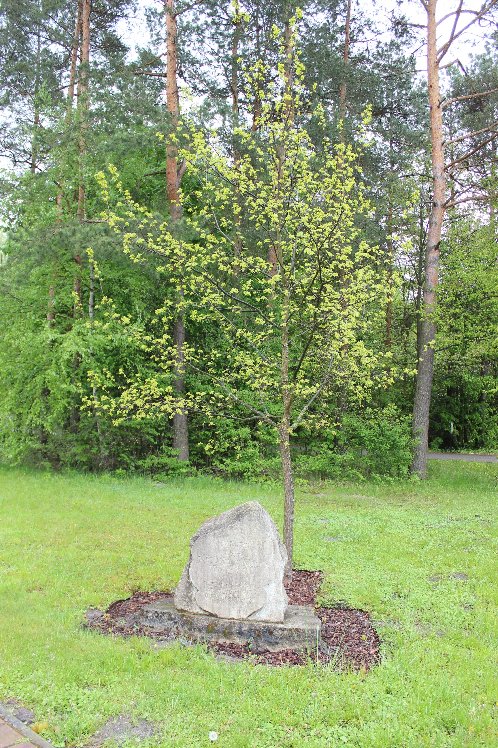 Roztocze National Park Educational Center and Museum